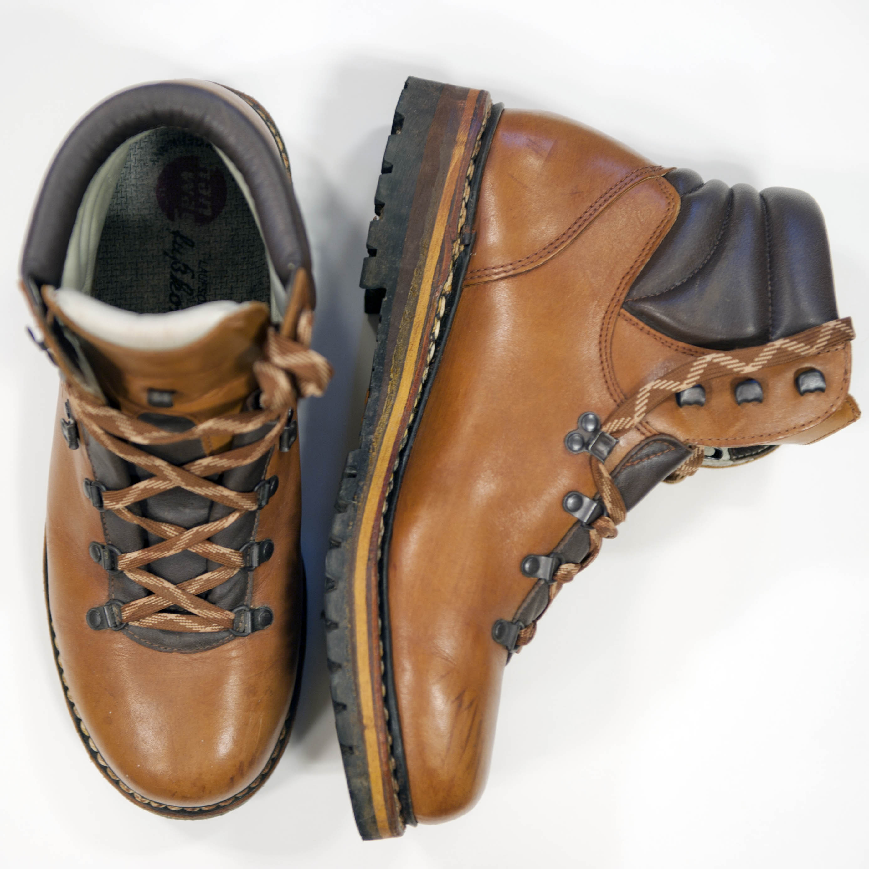 Alpine boots